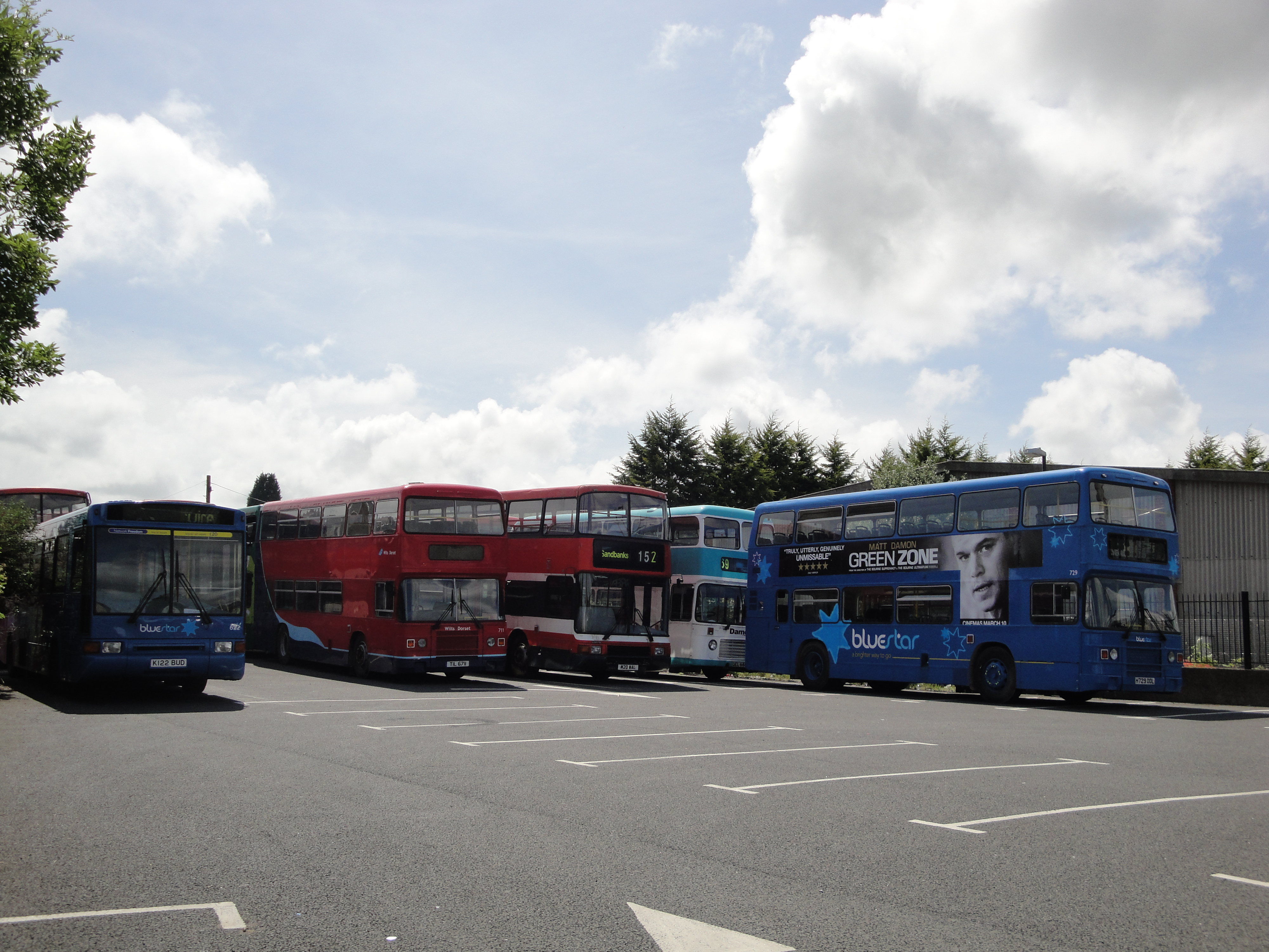 Various buses parked up in the car park in St John's Road, Ryde, Isle of Wight. The buses have been brought over as part of the events fleet for the required additional services to events such as the Isle of Wight Festival.